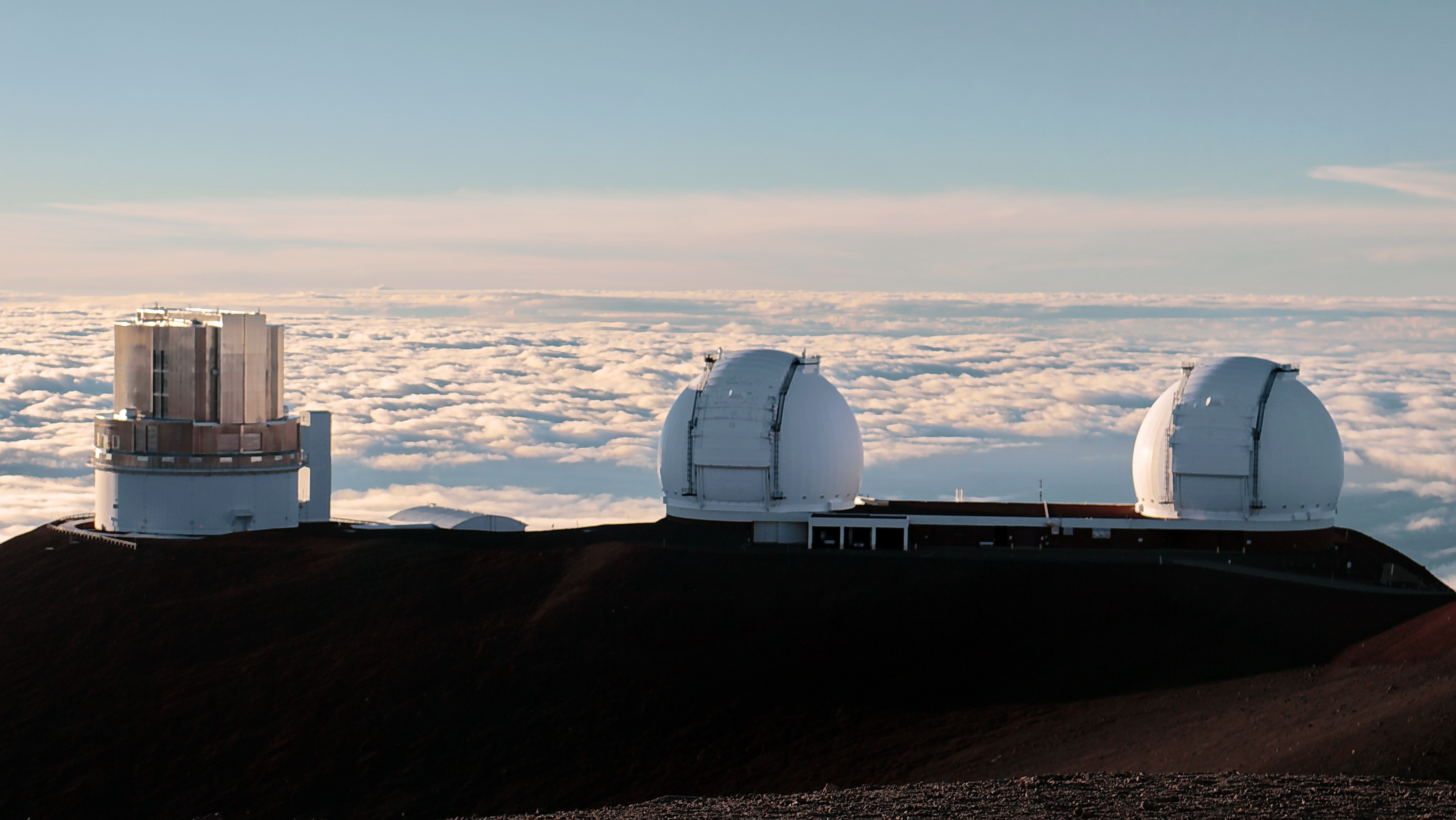 Subaru and Keck Telescopes. Mauna Kea Summit, Big Island, Hawaii, United States